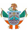 Escudo municipal, Juventino Rosas